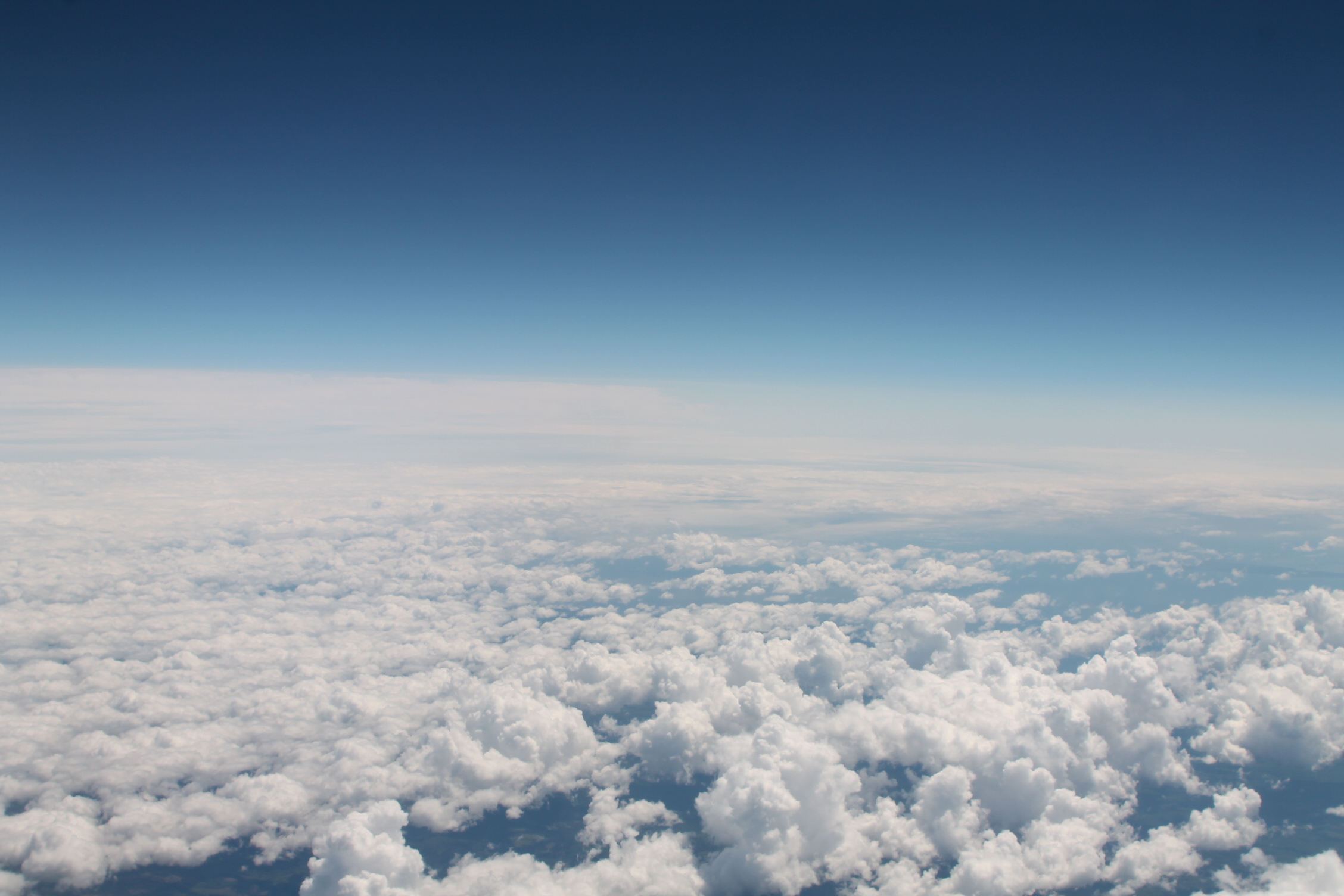 Cumulus clouds as seen from an airplane at 10,000 to 11,000 meters